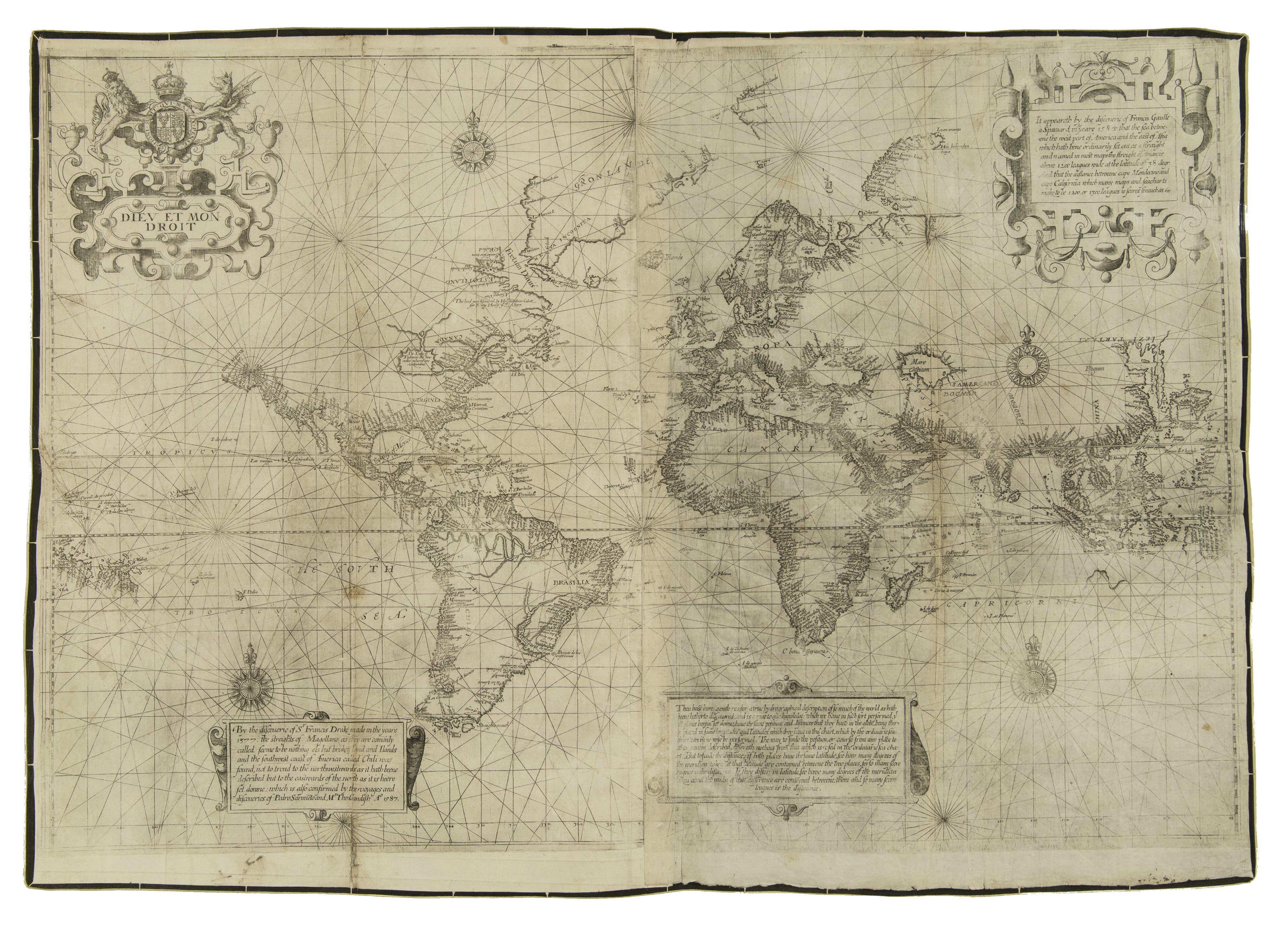 Caption: Thou hast here gentle reader a true hydrographical description of so much of the world as hath beene hetherto discouered, and is comme to our knowledge. which we haue in such sort performed, yt all places herein set downe, haue the same positions and distances that they haue in the globe, being therin placed in same longitudes and latitudes which they haue in this chart, which by the ordinarie sea-chart can in no wise be performed. The way to find the position, or course from any place to other herein described, differeth nothing from that which is vsed in the ordinarie sea chart. But to finde the distance; if both places haue the same latitude, see how many degrees of the meridian taken at that latitude are contayned betweene the two places, for so many score leagues is the distance. If they differ in latitude, see howe many degrees of the meridian taken about the midst of that difference are conteyned betweene; them and so many score leagues is the distaunce.Elsewhere: "I haue contented my self with inserting into the worke one of the best generall mappes of the world onely, untill the comming out of a very large and most exact terrestrial Globe, collected and reformed according to the newest, secretest, and latest discoveries, both Spanish, Portugall, and English, composed by M. Emmerie Mollineux of Lambeth, a rare Gentleman in his profession, being therein for divers yeeres, greatly supported by the purse and liberalitie of the worshipfull marchant M. William Sanderson."A map of the world by the mathematical adaptation of the Mercator Projection computed by Edward Wright and used to flatten the information on the c. 1592 globe made by Emery Molyneux and thus generally known as the Wright–Molyneux Map. Possibly charted in 1599, published in 1600 as an addendum to Vol. I of the 2nd edition of Richard Hakluyt's Principall Nauigations...